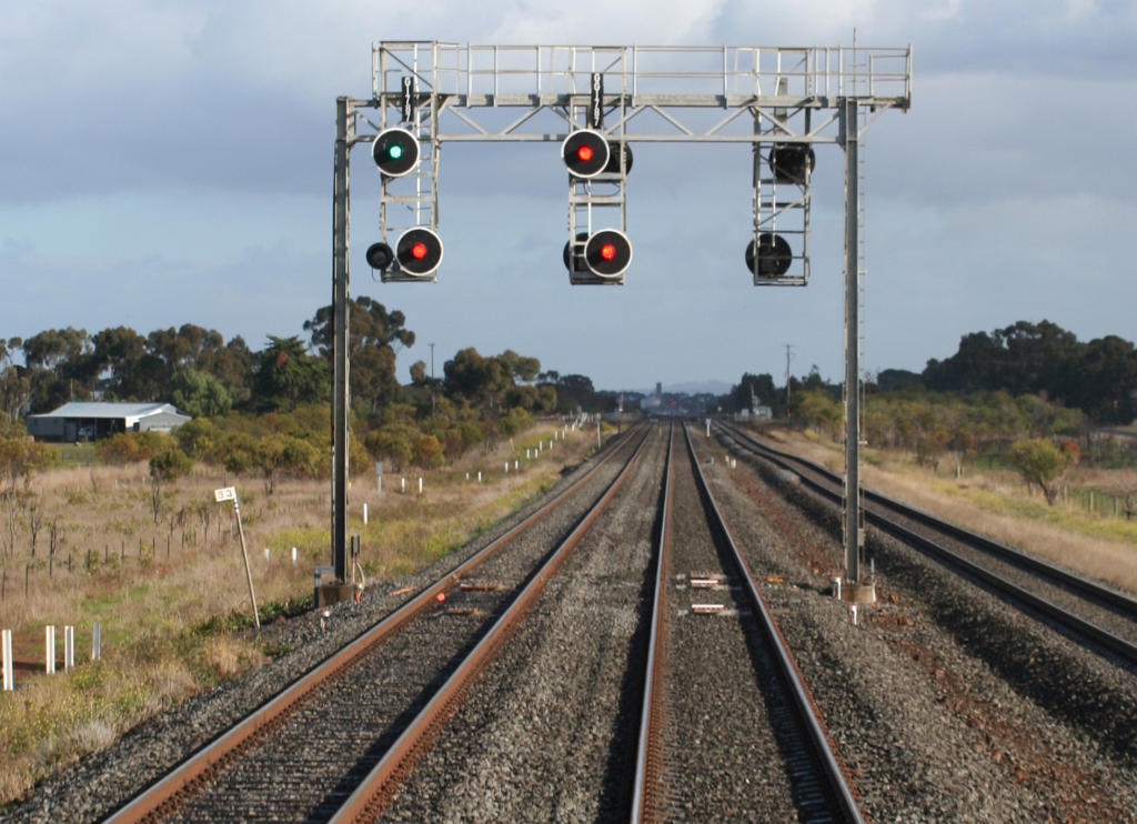 Modern Victorian colour light LED signals - Lara, Victoria, Australia